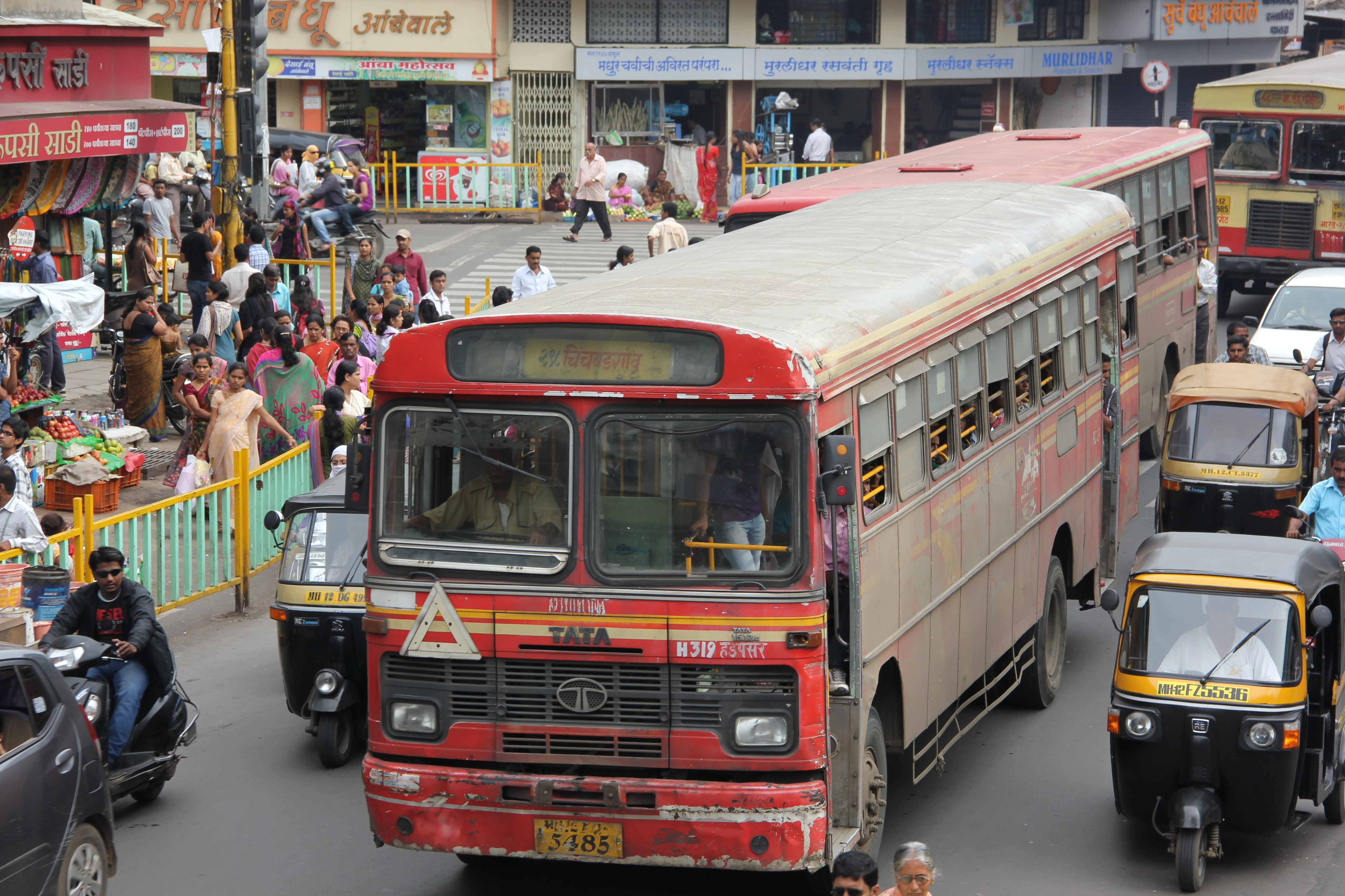 Pune Local Transport